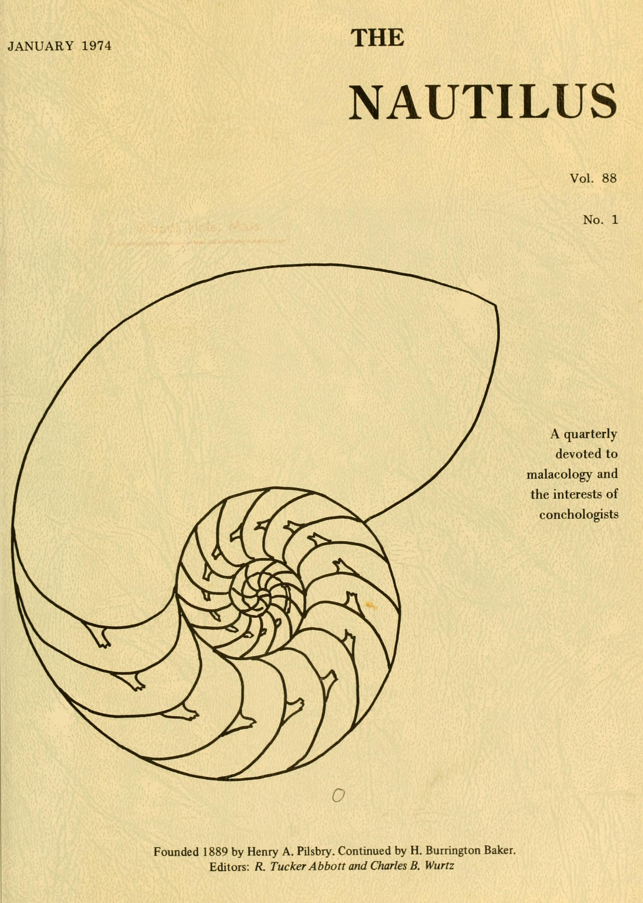 Journal cover of The Nautilus volume 88(1). This design of The Nautilus has been used since July 1972 to 1986.